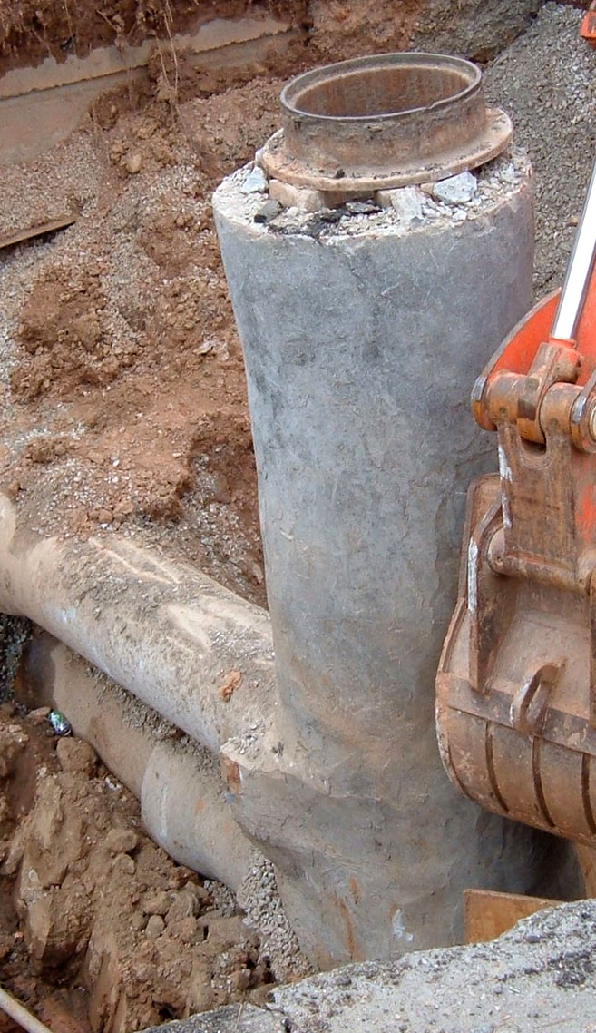 Manhole on Georgia Tech campus in Atlanta, GA, USA